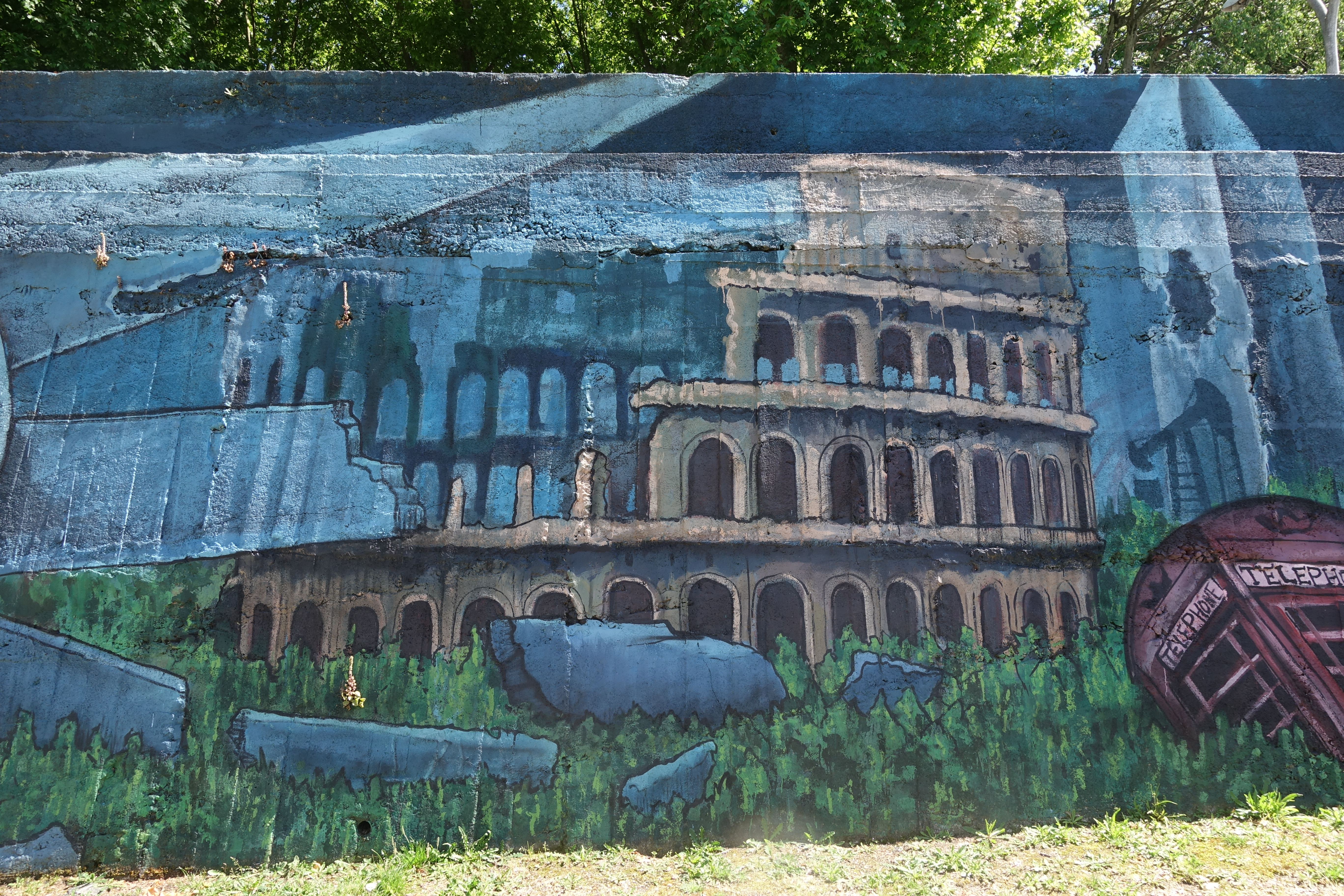 Graffiti in Braga, Portugal